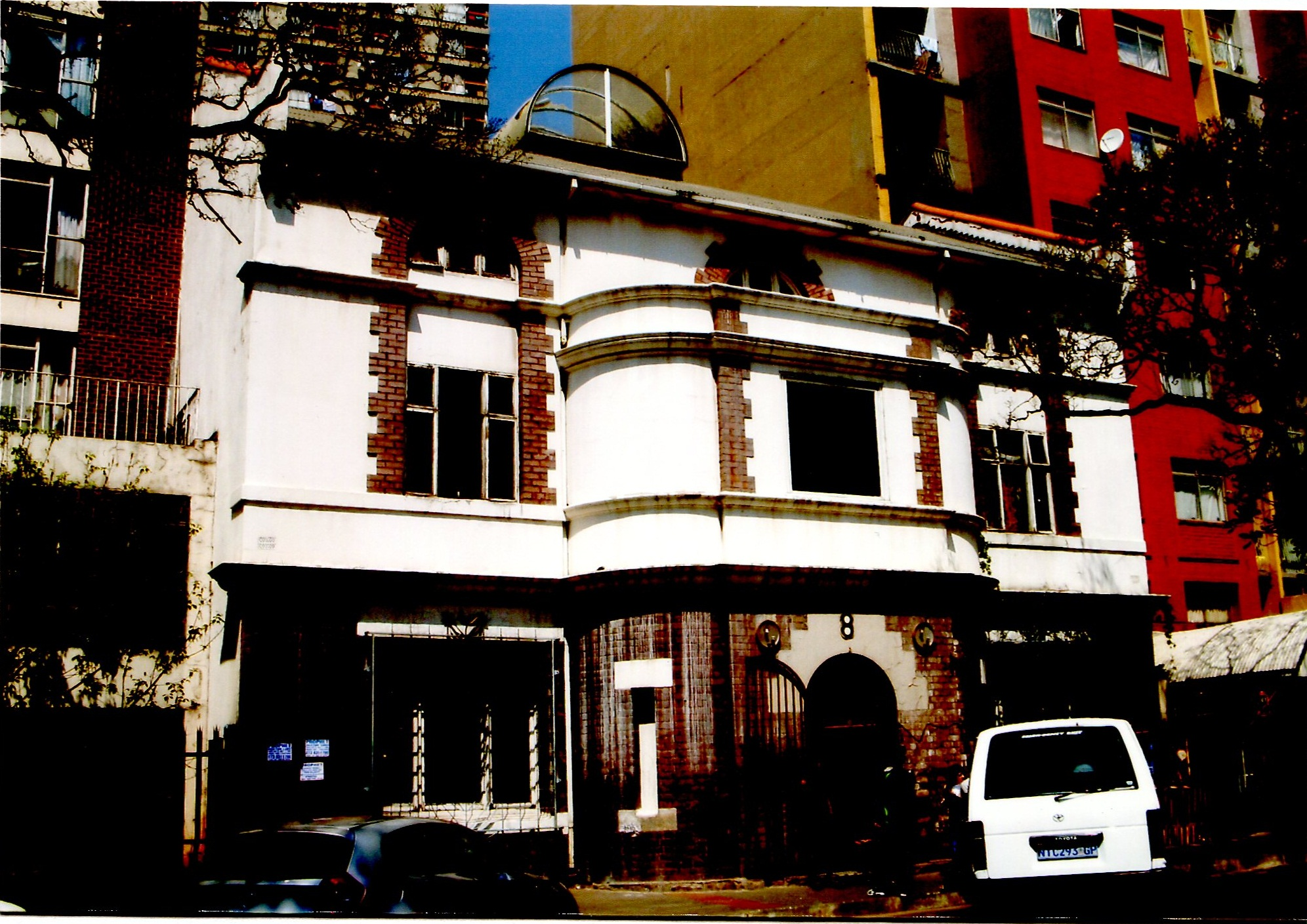 The Corona Lodge in Berea. this is part of the Johannesburg Heritage Foundation works given to the Joburgpedia project which I'm a Wikipedian in Residence